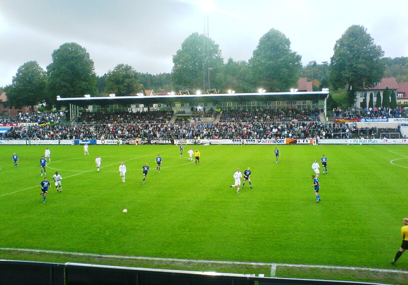 Halmstads BK Play Gefle at Örjans Vall in Halmstad, Fotbollsalallsvenskan 2007 (0-0)